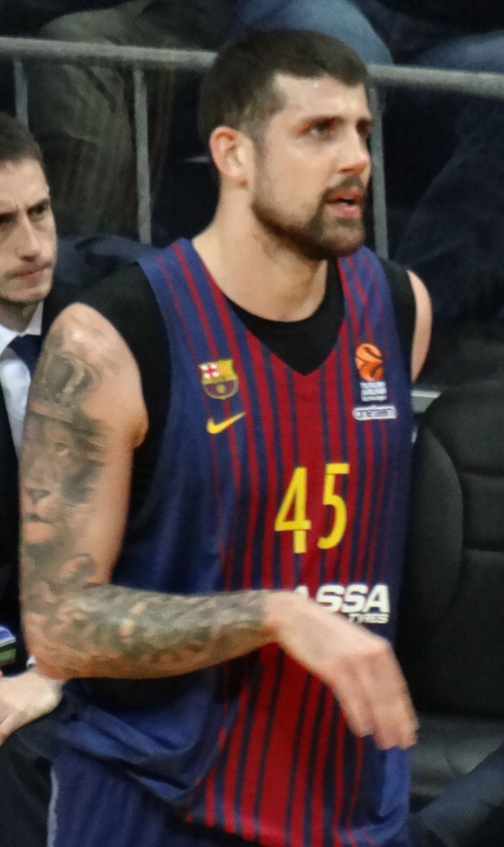 Adrien Moerman 45 FC Barcelona Bàsquet 20180126